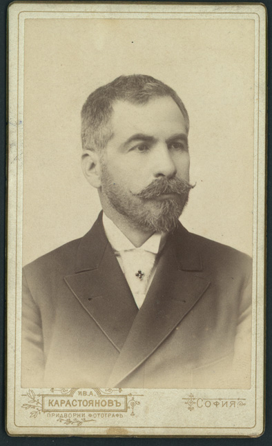 Atanas Iliev